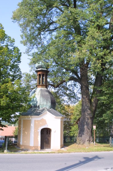 Chapel and protected lime tree (Tilia cordata) in village of Břízsko, Plzeň-North District, Czech Republic. The tree was destroyed by a windstorm two years later, in 2007.